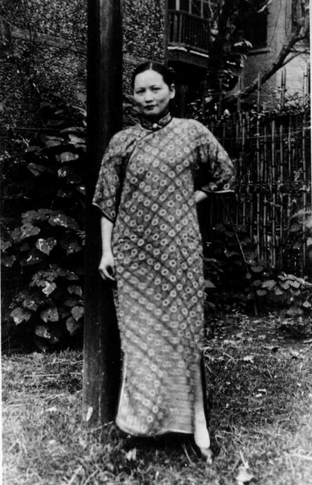 Soong Ching-ling wear cheongsam